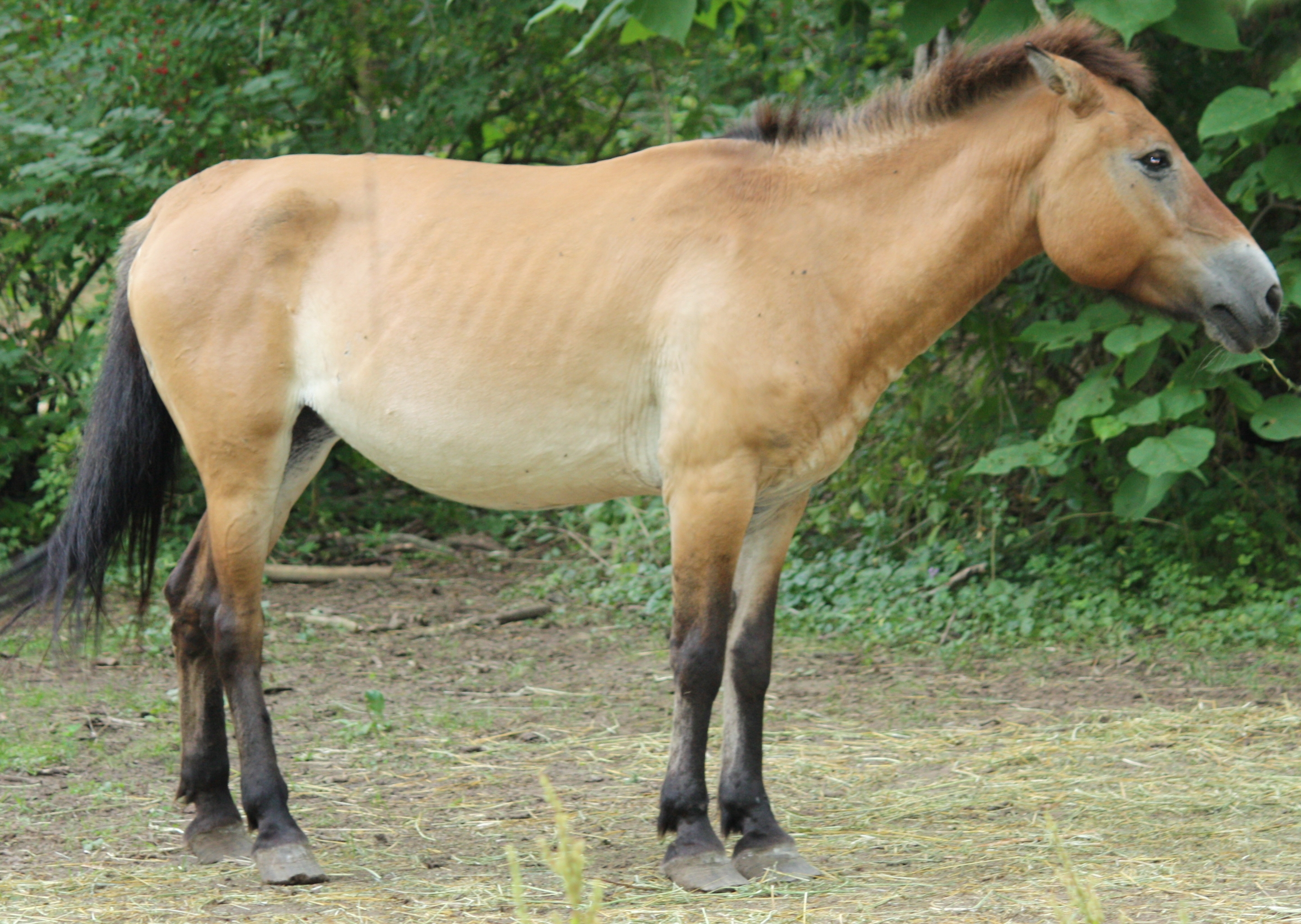 Mongolian Wild Horse Equus przewalskii at Binder Park Zoo in Battle Creek Michigan